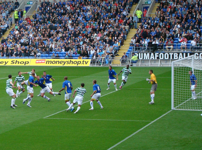 Cardiff City Vs Celtic, Cardiff City Stadium, Cardiff, Wales. Final score 0-0.